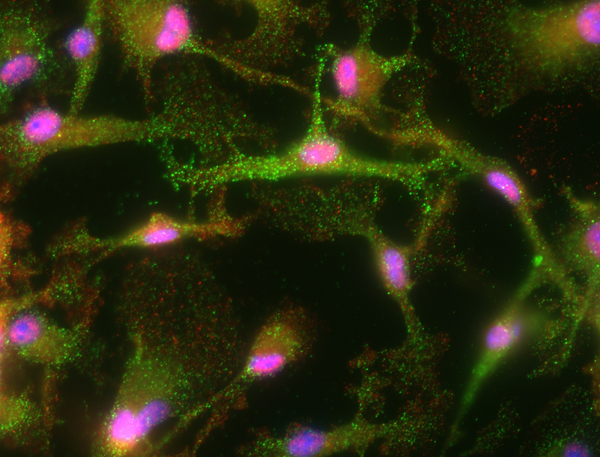 Dkk3 is expressed in a mouse primary retinal Müller glia culture. The Dickkopf (Dkk) proteins are secreted glycoproteins that act as regulators in the Wnt signaling pathway. In this merged image, Dkk3 (green) is expressed in the perinuclear region and along processes in a punctate pattern. Glutamine synthetase (red) acts as a marker for the Müller glia and the nuclei are counterstained with DAPI (blue).